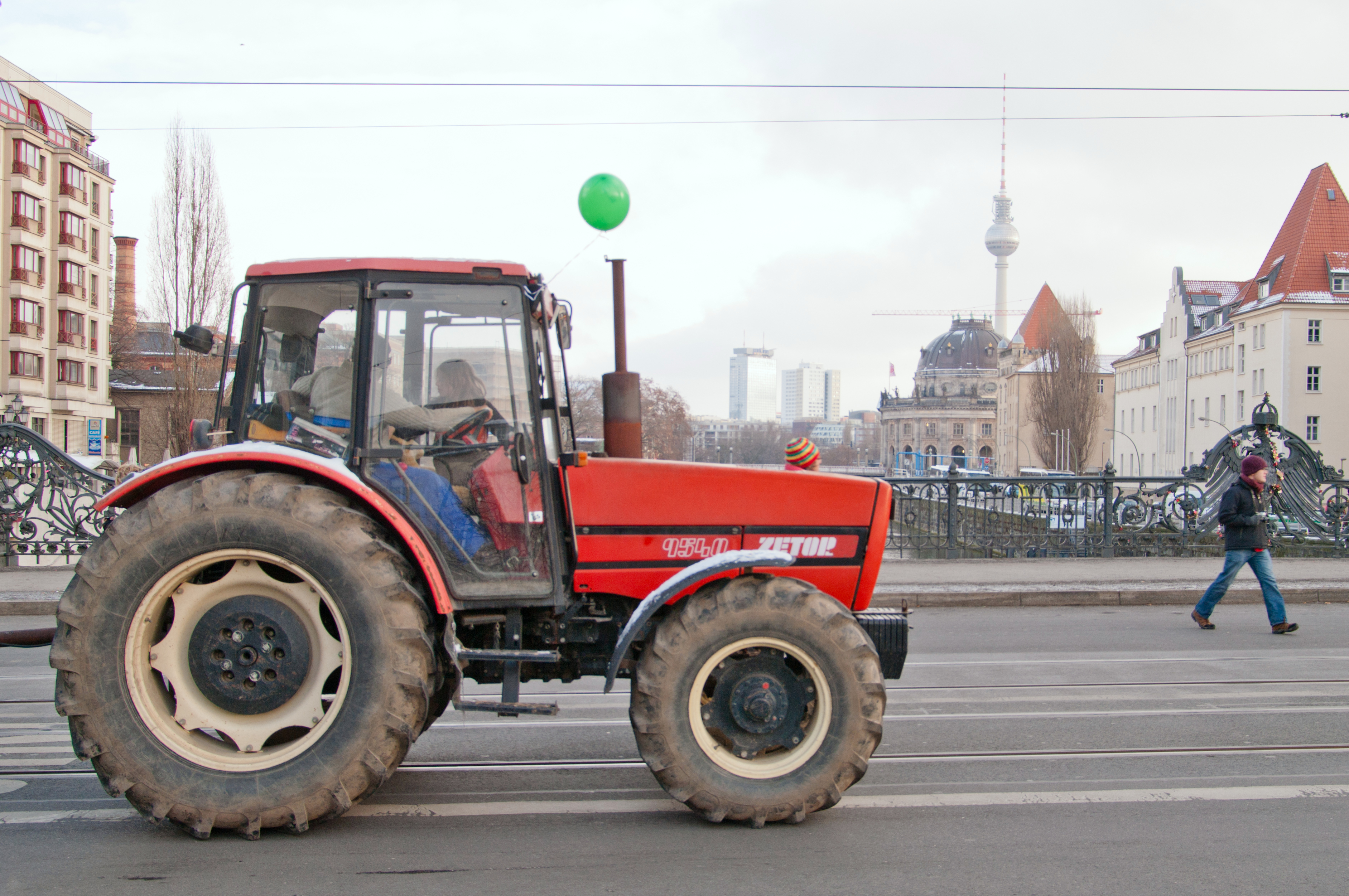 "Wir haben es satt!" (We are fed up) demonstration Berlin 2013